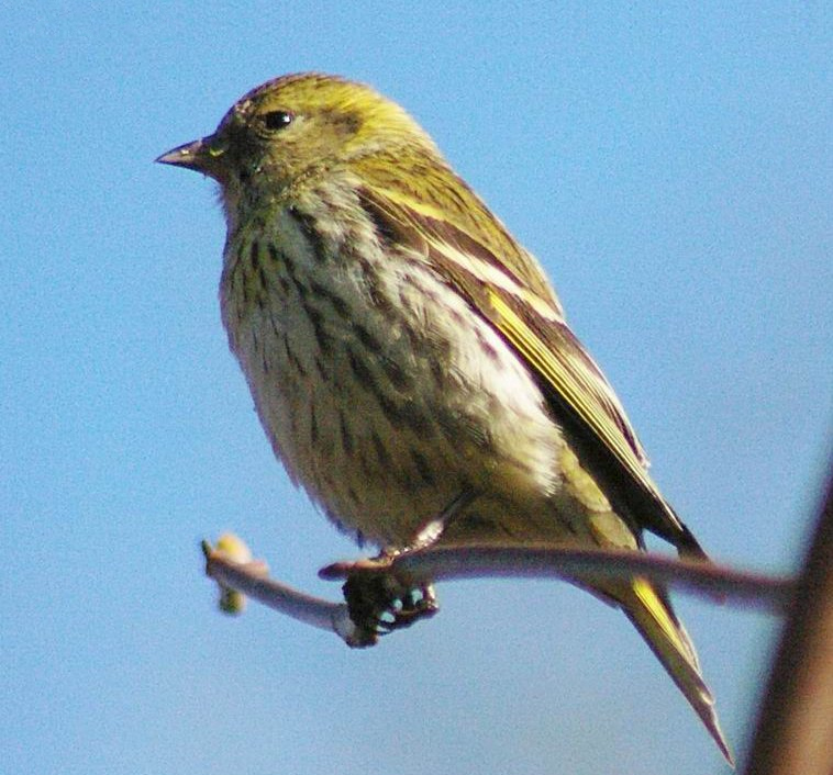 Eurasian Siskin (Japanese: Mahiwa). Tsukuba, Japan, 2007 (wild)